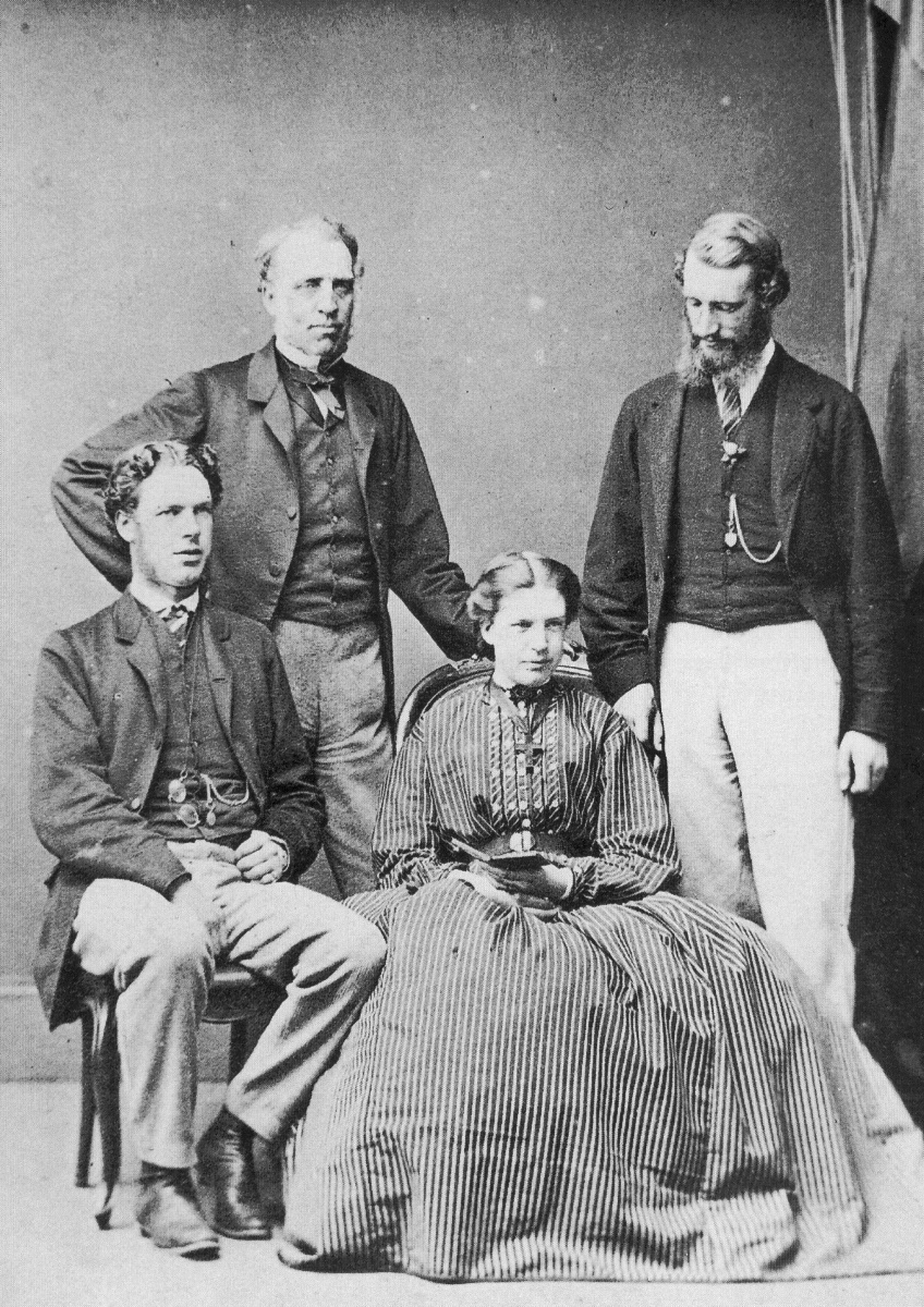 Family of Mandell Creighton ca. 1870. From left to right: James, Robert, Mary Ellen (Polly), and Mandell. This family photograph was obtained from Creighton's grandniece, Joan Duncan, and was never published.